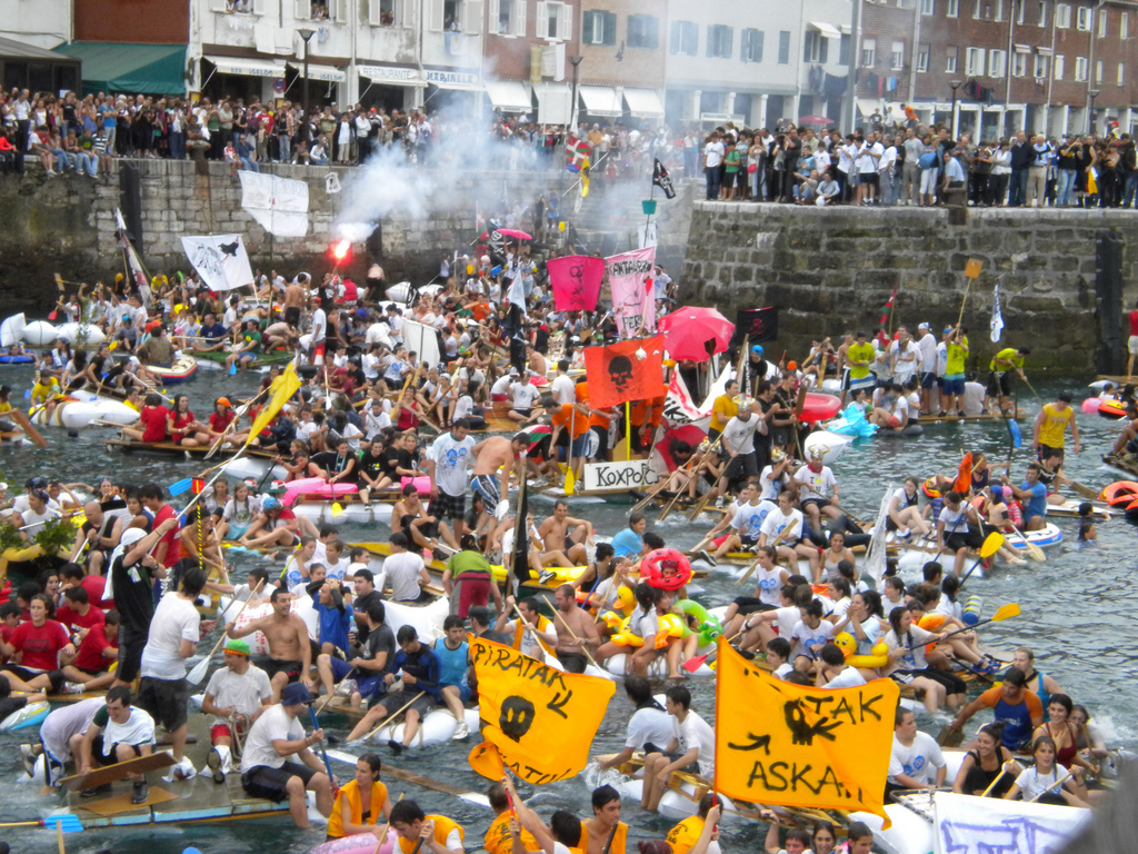 "Abordatzera" celebration in Donostia, Basque Country.